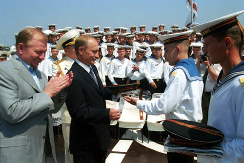 SEVASTOPOL. President Putin with Ukrainian President Leonid Kuchma on board the Russian Black Sea Fleet\'s flagship the Moskva missile cruiser. A gift from navymen, sailors caps and striped vests.